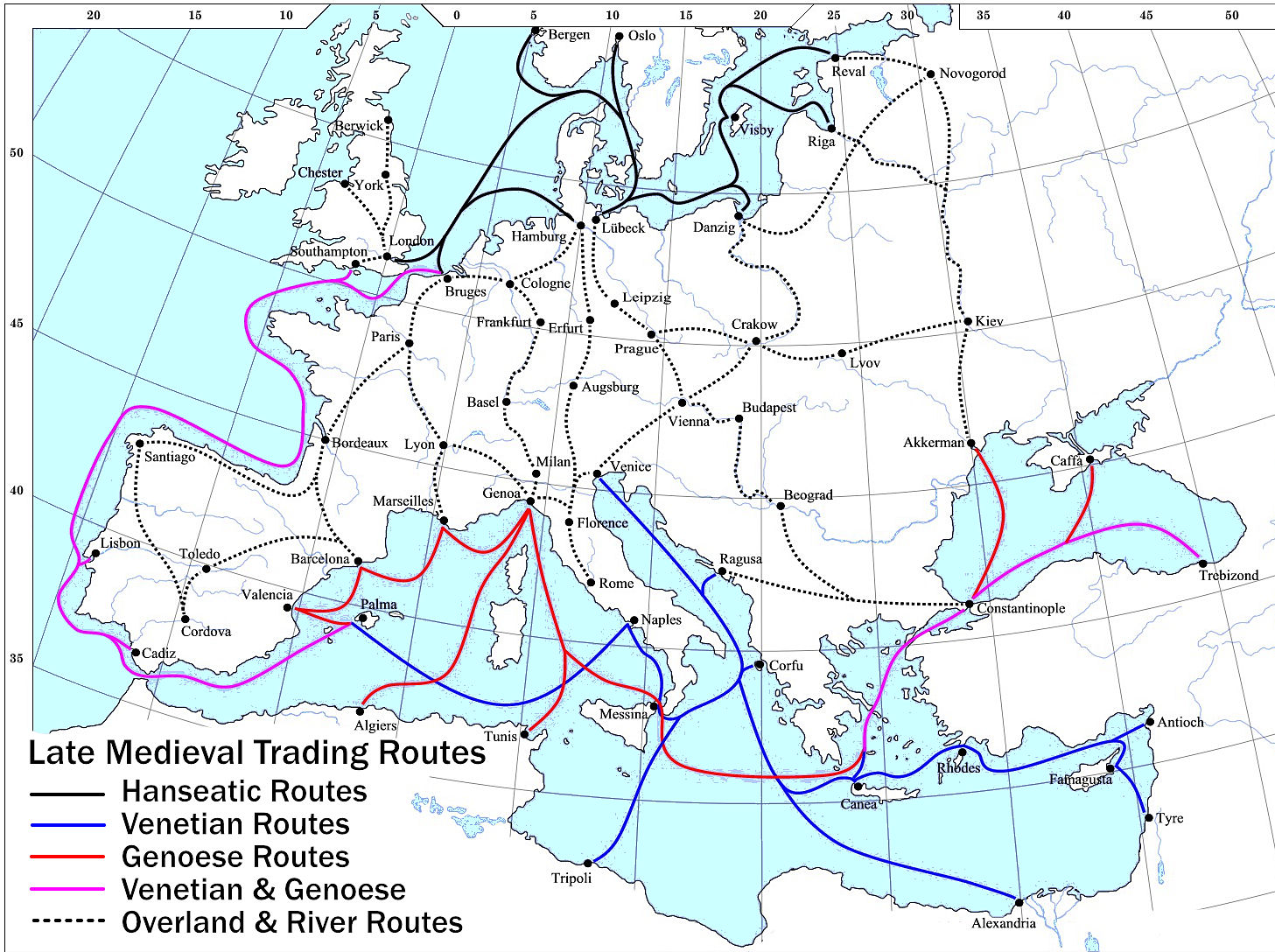 Map showing the main trade routes of late medieval Europe. The black lines show the routes of the Hanseatic League, the blue Venetian and the red Genoese routes. Purple lines are routes used by both the Venetians and the Genoese. Overland and river routes are stippled.